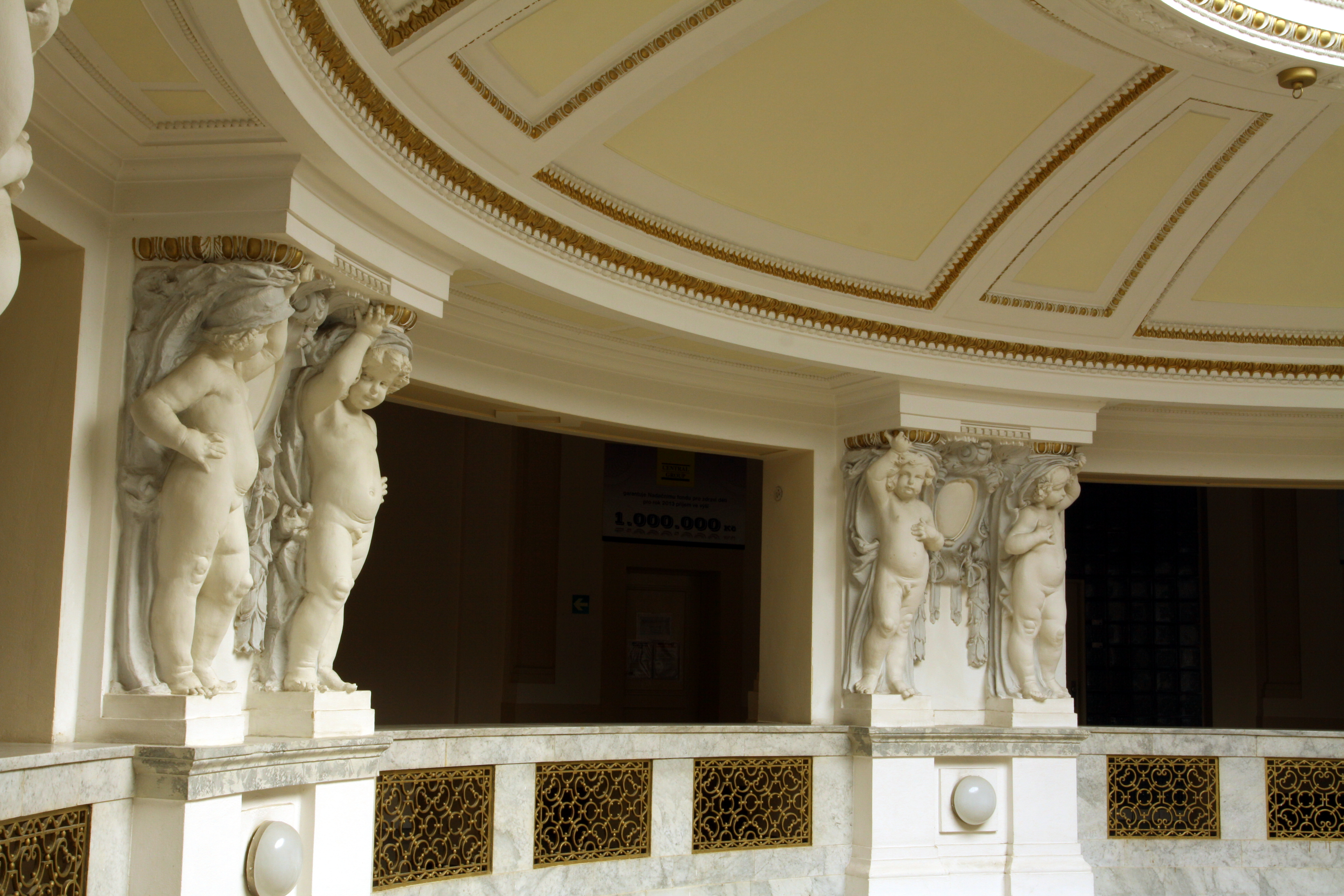 Interier of Maternal hospital in Podolí in Prague, Czech Republic